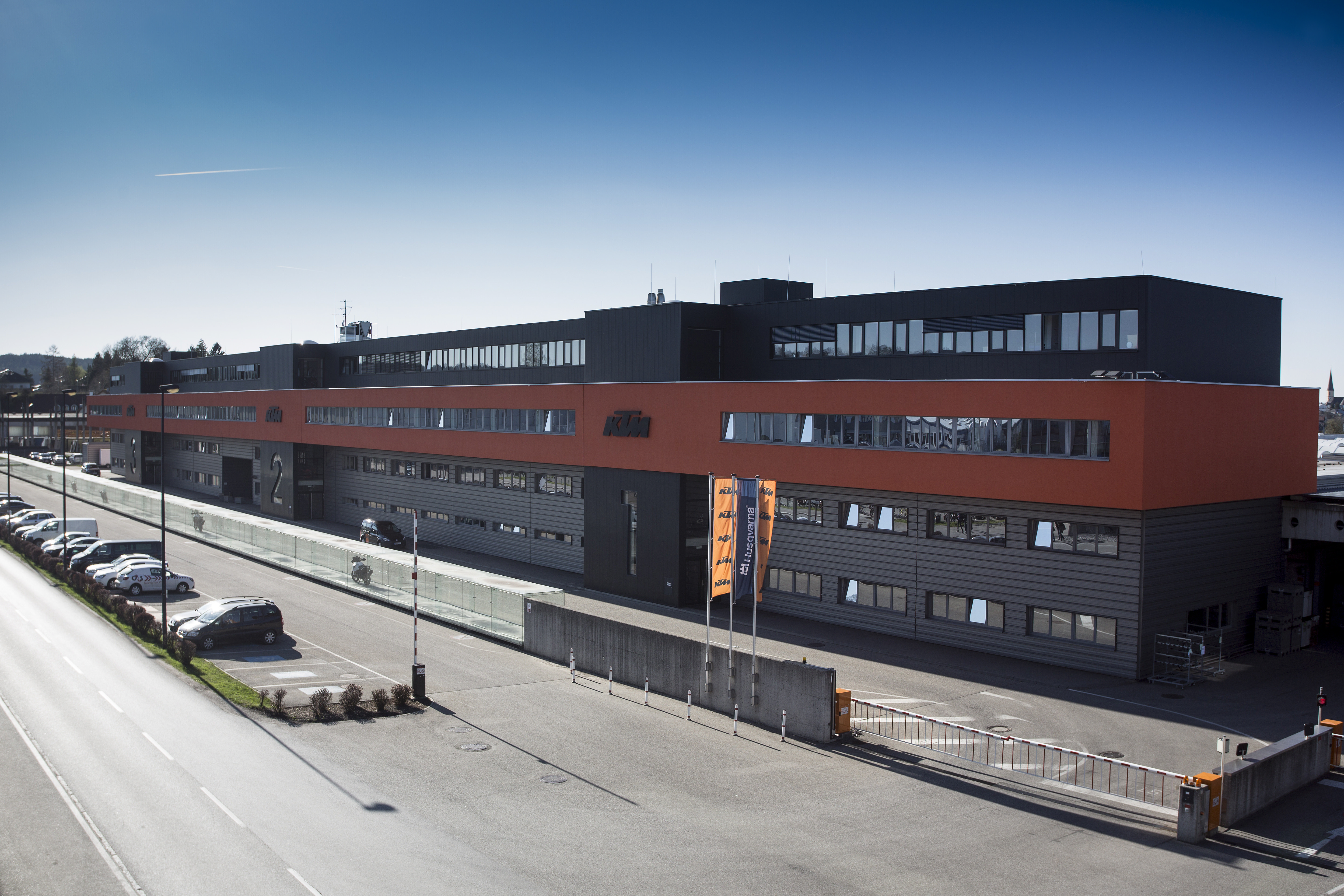 KTM Main Building, Mattighofen (Austria)